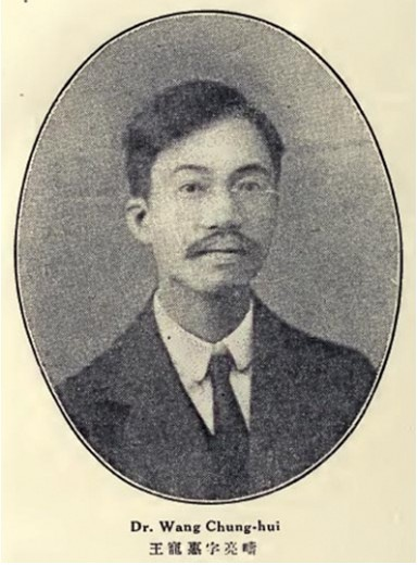 Wang Chonghui, Liangchou (1881 - 1958)